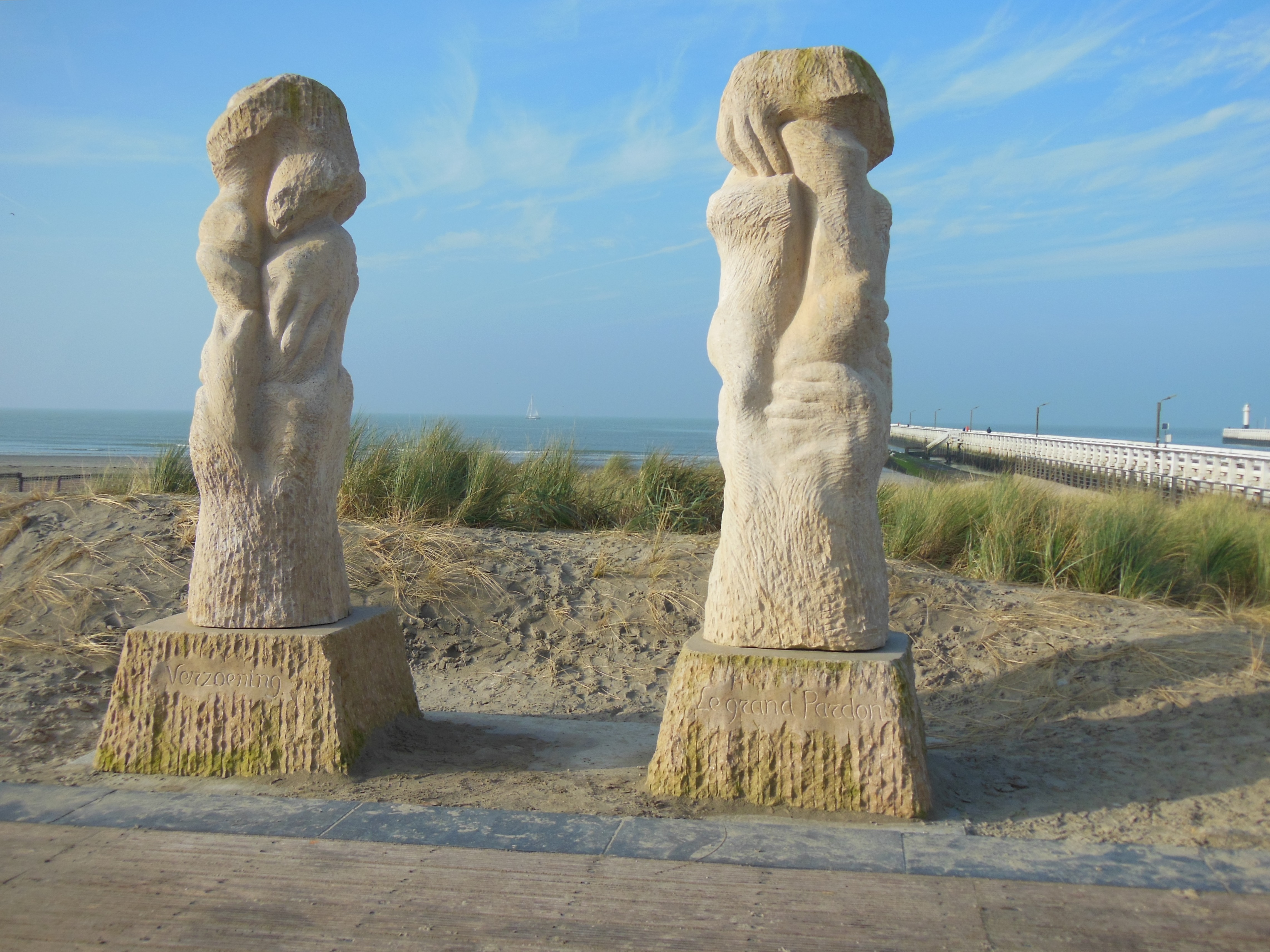 A pair of figures, called "Reconciliation", with human forms as a metaphor for aggression, reconciliation, shelter and hospitality